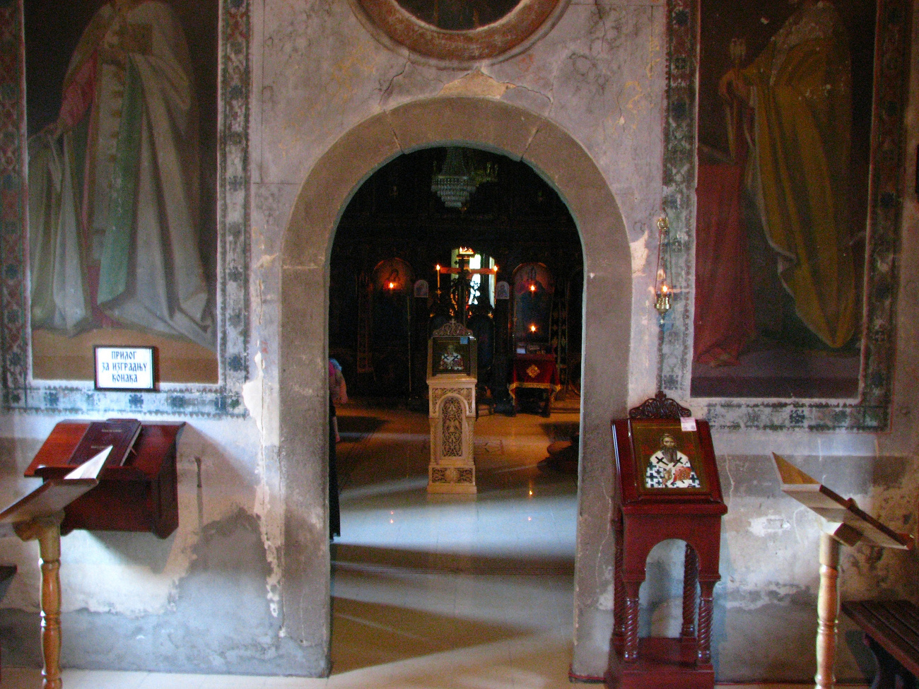 Bukovo Monastery, Serbia